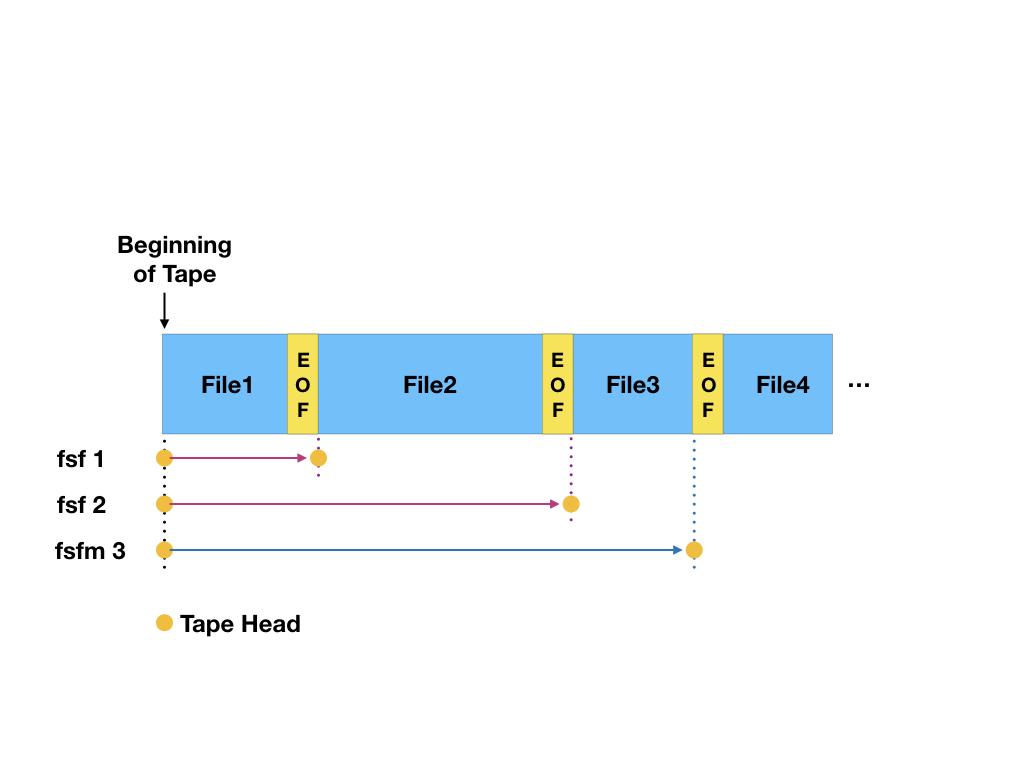 Tape mt Unix/Linux command - forward